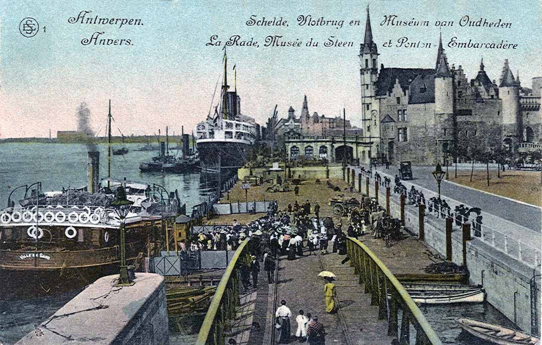 Postcard, posted on 13.7.1917. Title: "Antwerp - Scheldt, Steen Museum and landing bridge." The picture was problably taken before the war 1914-1918. Paddle Steamer Ville de Gand